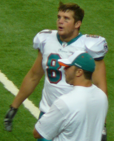 If used somewhere other than Wikipedia, Nelson, by name.